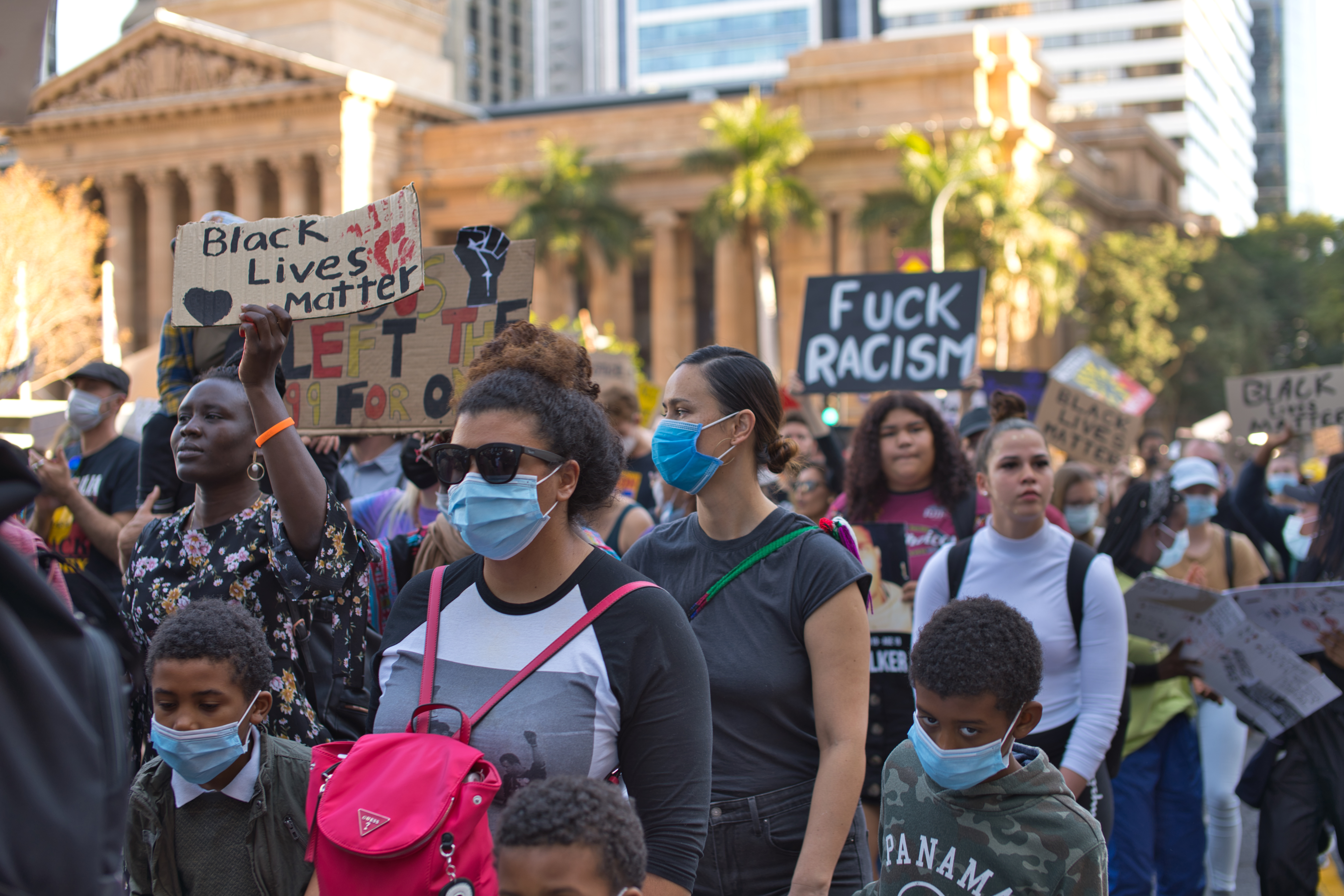 Anti-Racism Protest in Brisbane, Queensland, Australia. 6 June 2020. This protest was in support of Black Lives Matter and associated protests in the United States following the killing of George Floyd - but also highlighted parallel issues within Australia such as the deaths of Australia's aboriginal people while in police custody.